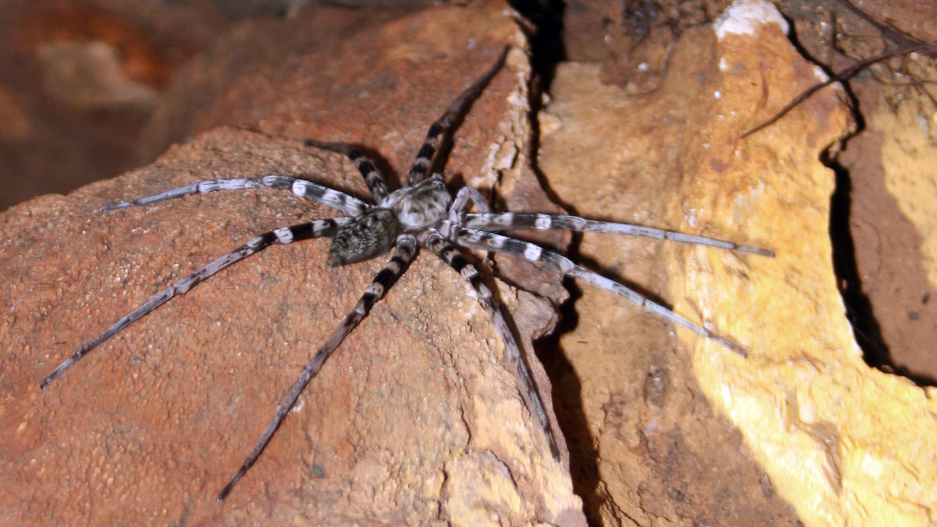 Zebra spider (Viridasius fasciatus) in Anjajavy Forest, Madagascar